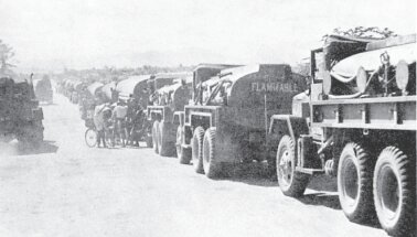 PAVN trucks massed for 1972 Easter Offensive- from